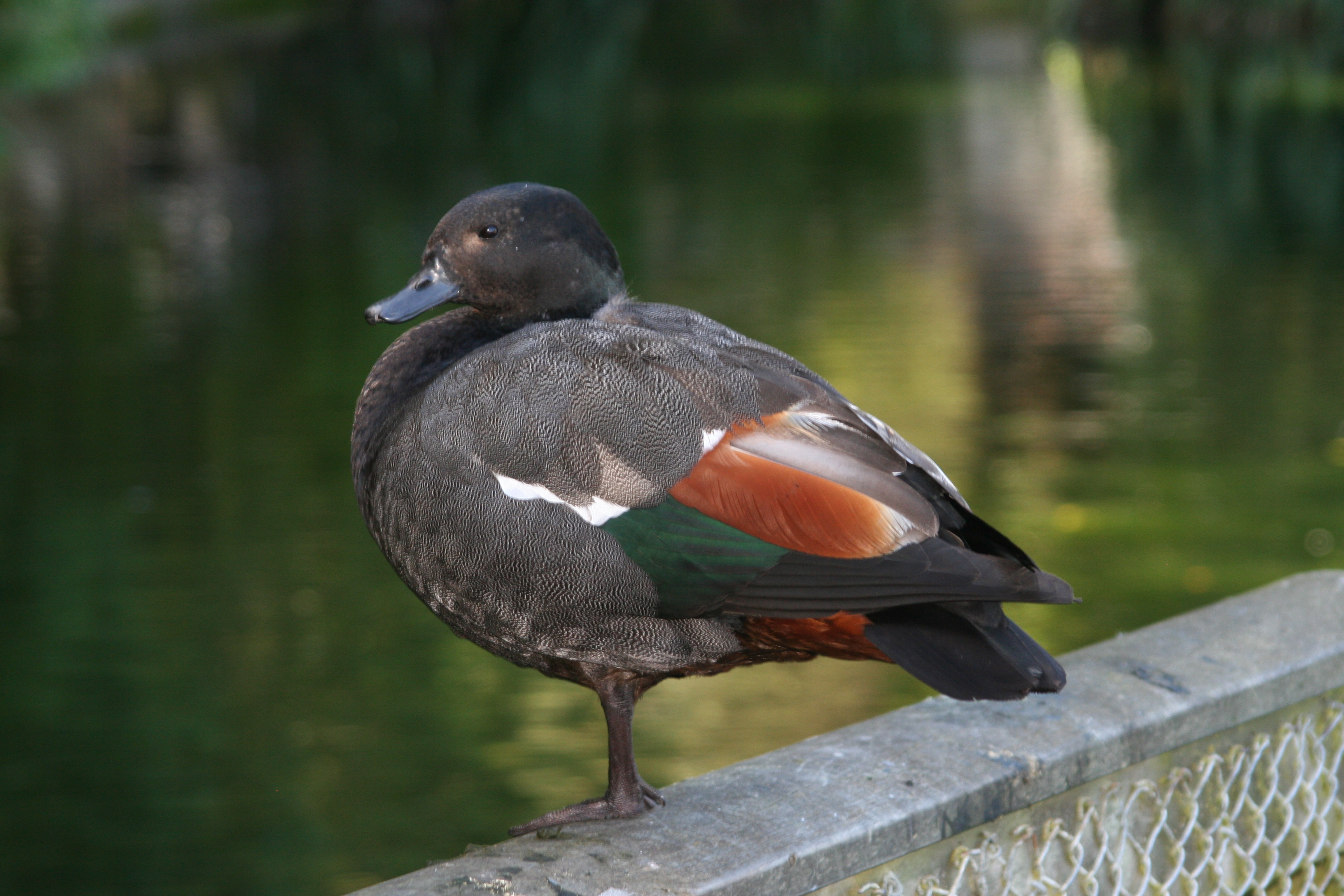 Male Paradise Shelduck on old water chute pond, Day's Bay 2010